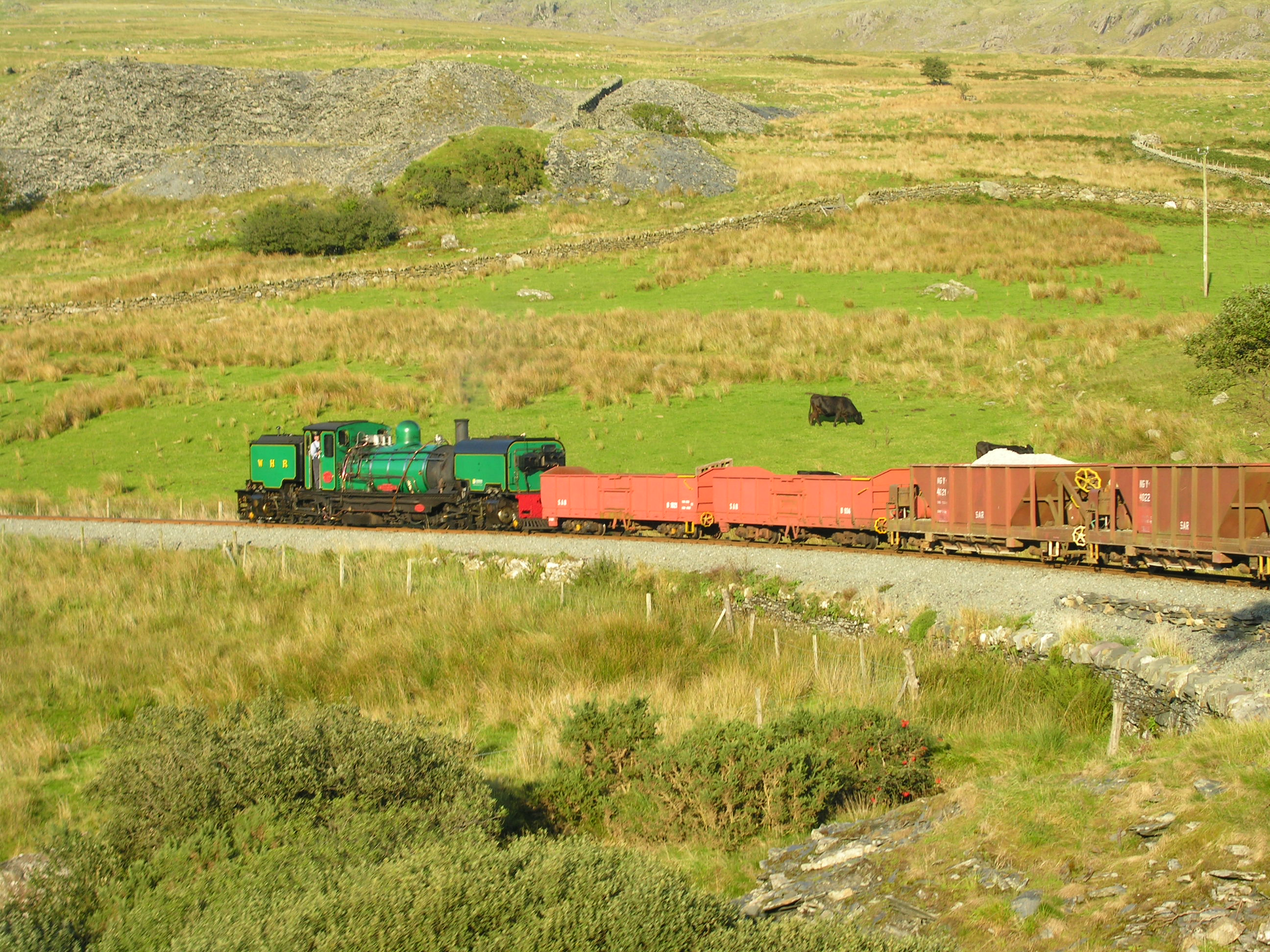 Photograph by vanoord. SAR class NGG16 138 with goods train on the Welsh Highland Railway